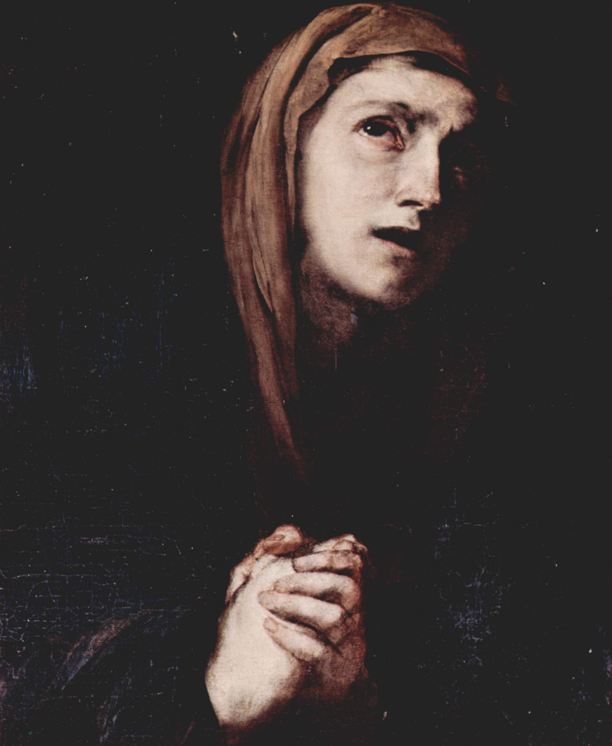 detail: head of Mary